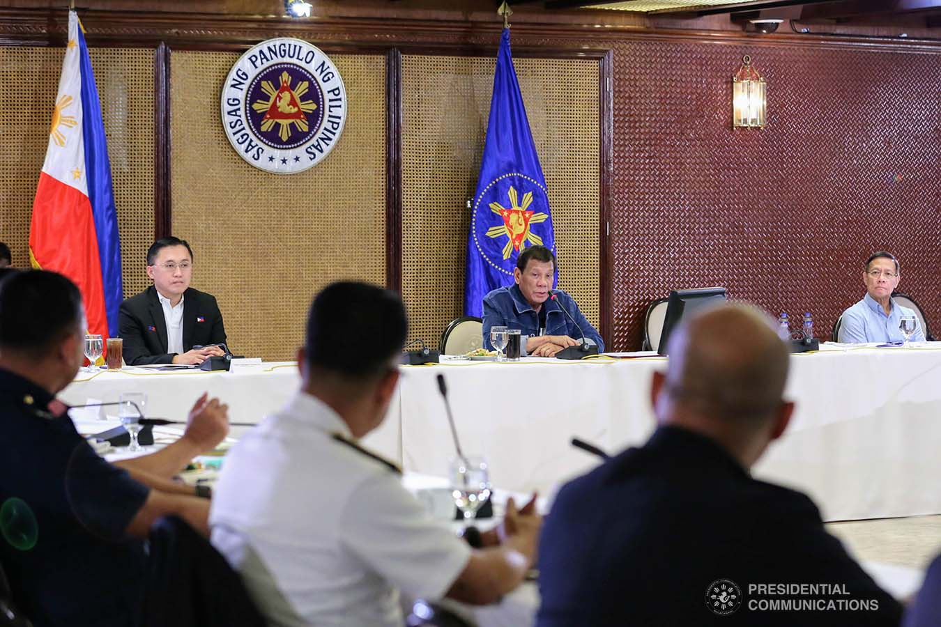 President Rodrigo Roa Duterte presides over a meeting with the Inter-Agency Task Force on the Emerging Infectious Diseases (IATF-EID) at the Malacañan Palace on March 12, 2020. RICHARD MADELO/PRESIDENTIAL PHOTO